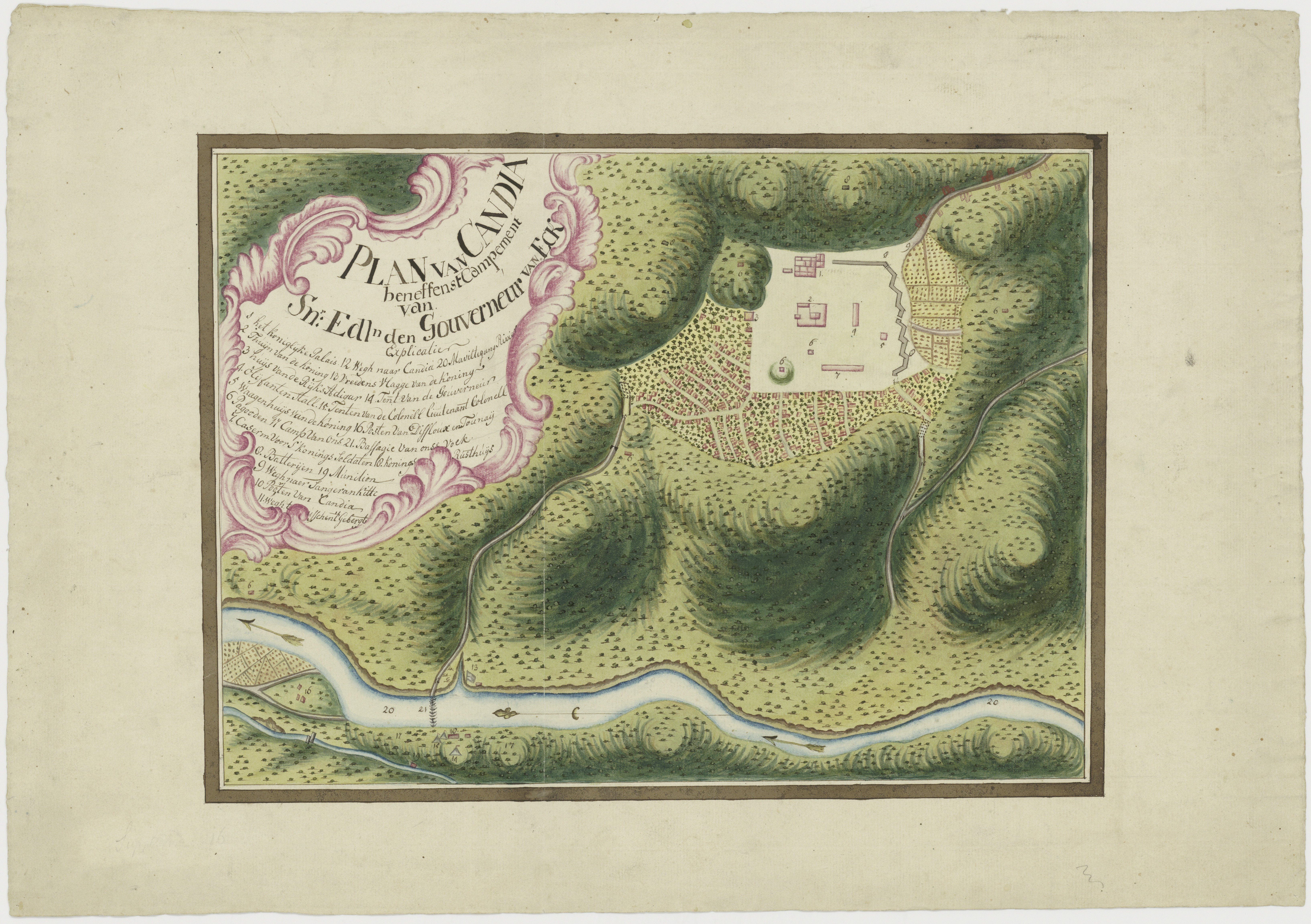 Title in the Leupe catalogue (NA): Plan van Candia beneffens 't Campement van S:n Edln den Gouverneur van Eck. Notes on reverse: 32 [in pencil]. Key: 1-19